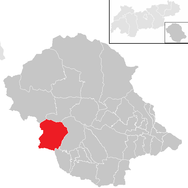 District Lienz